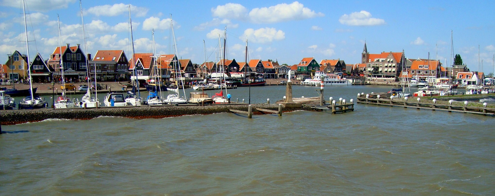 Volendam, Netherlands. General view of the harbor.